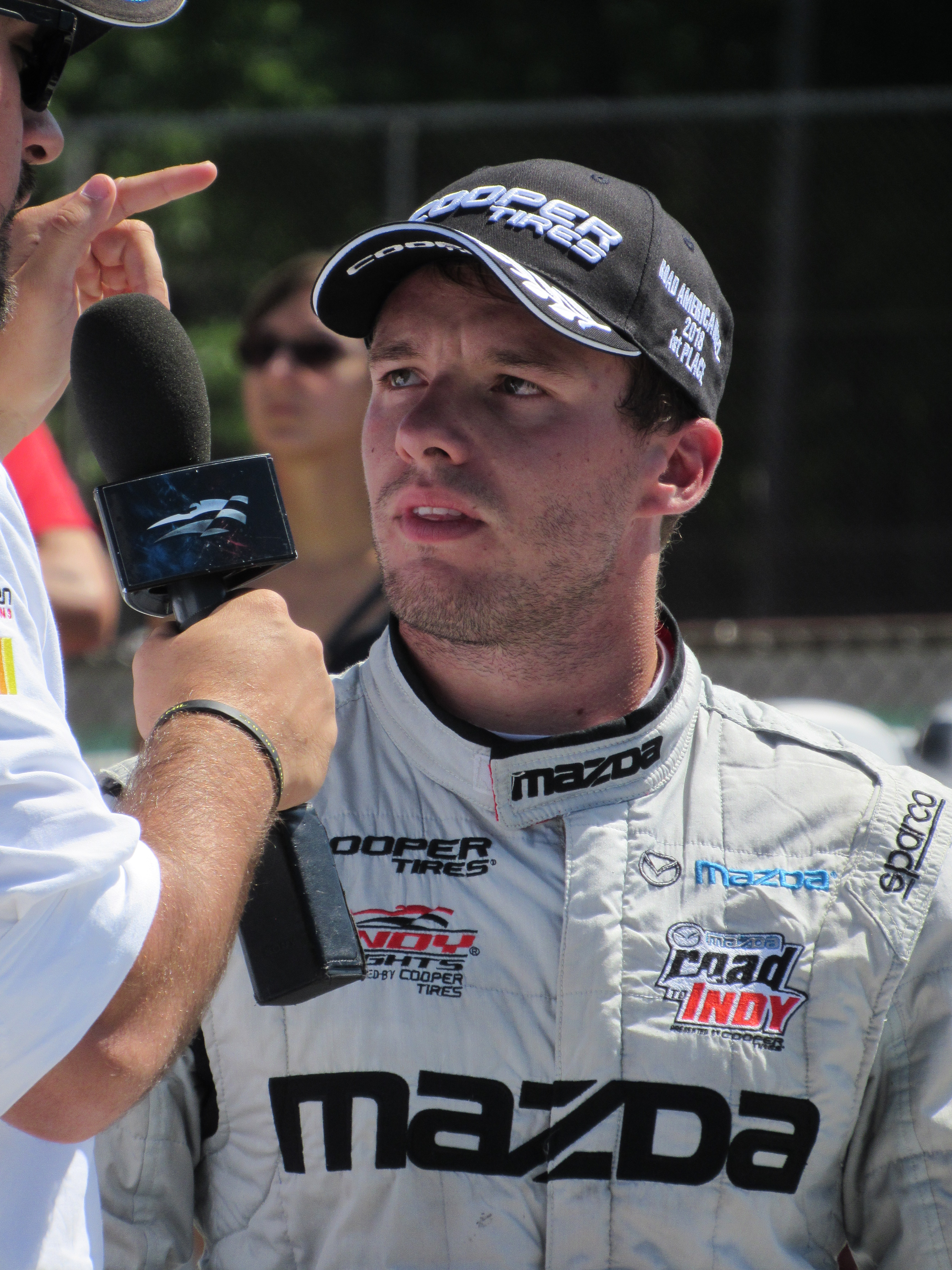 Victor Franzoni interviewed in Road America Victory Lane after winning an Indy Lights race in 2018